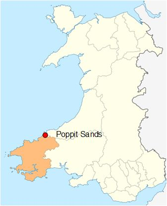 location of Poppit Sands in Pembrokeshire